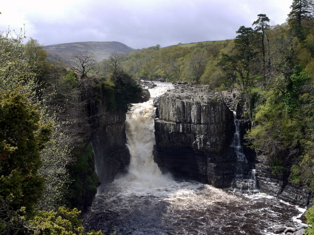 High Force A most impressive waterfall especially after a period of wet weather. Here the River Tees plunges 21 metres over an outcrop of the Whin Sill dolerite which overlays softer sandstone and limestone layers which become undercut below.